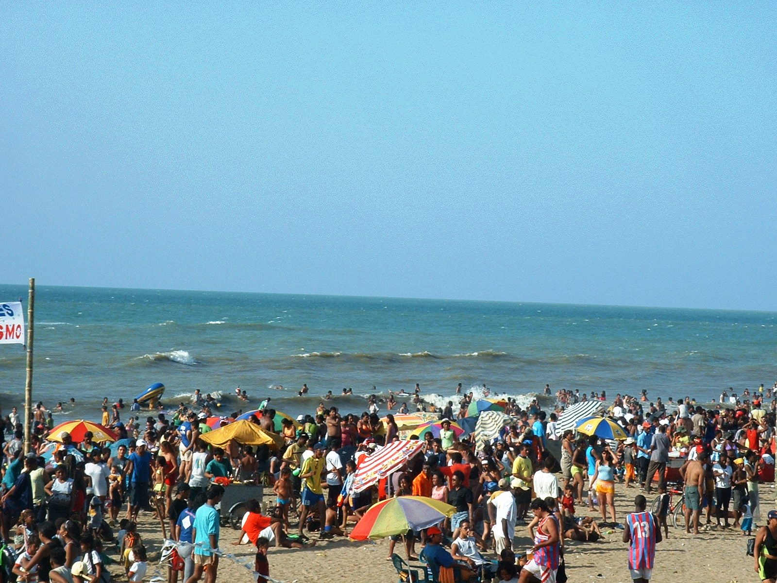 Playa de Esmeraldas